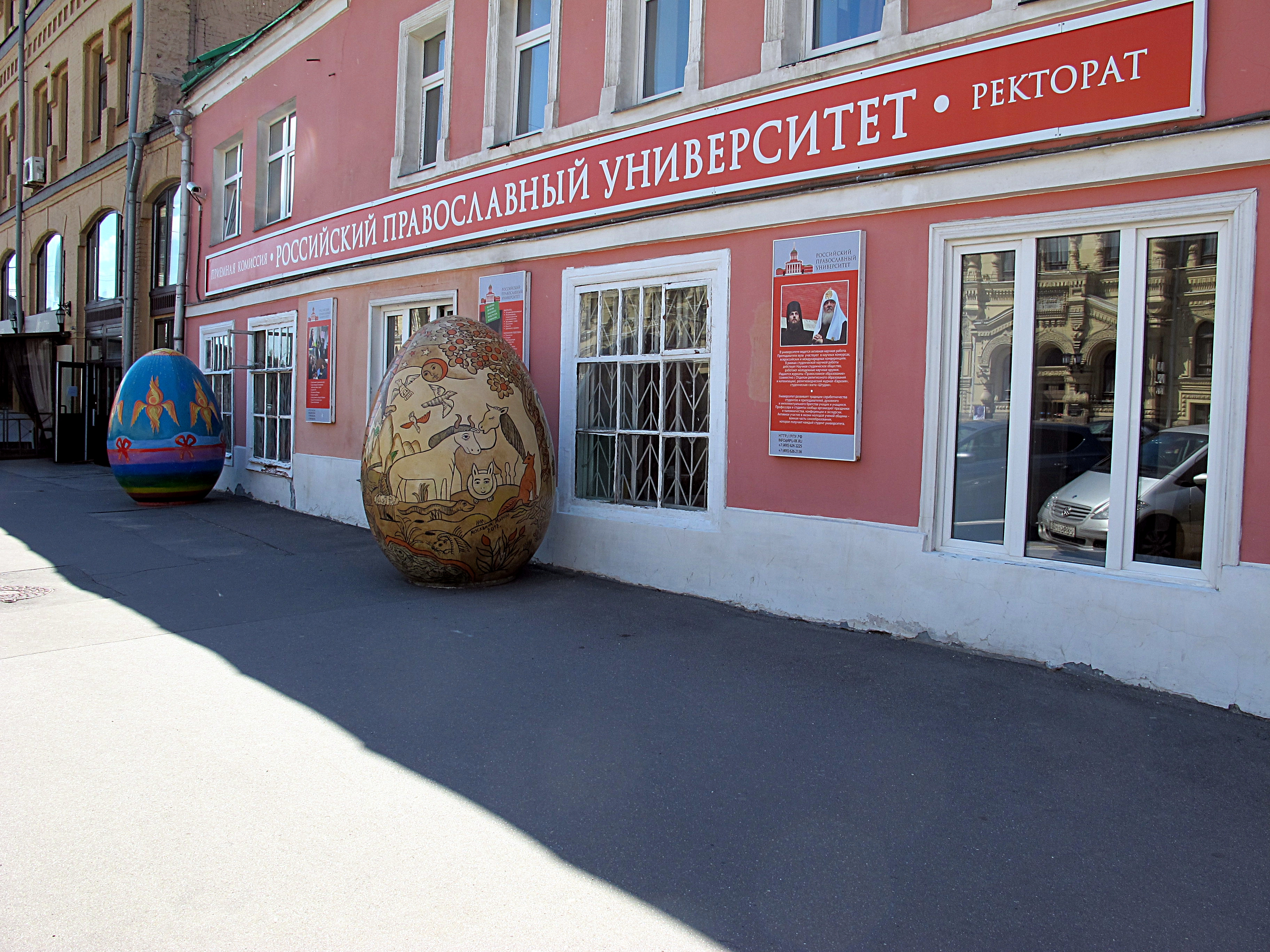 Eggs. Russian Orthodox University. University Administration. 2013-06-03, Moscow.